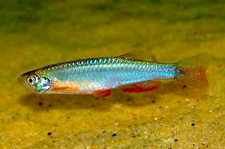 Pearl Danio, Danio albolineatus